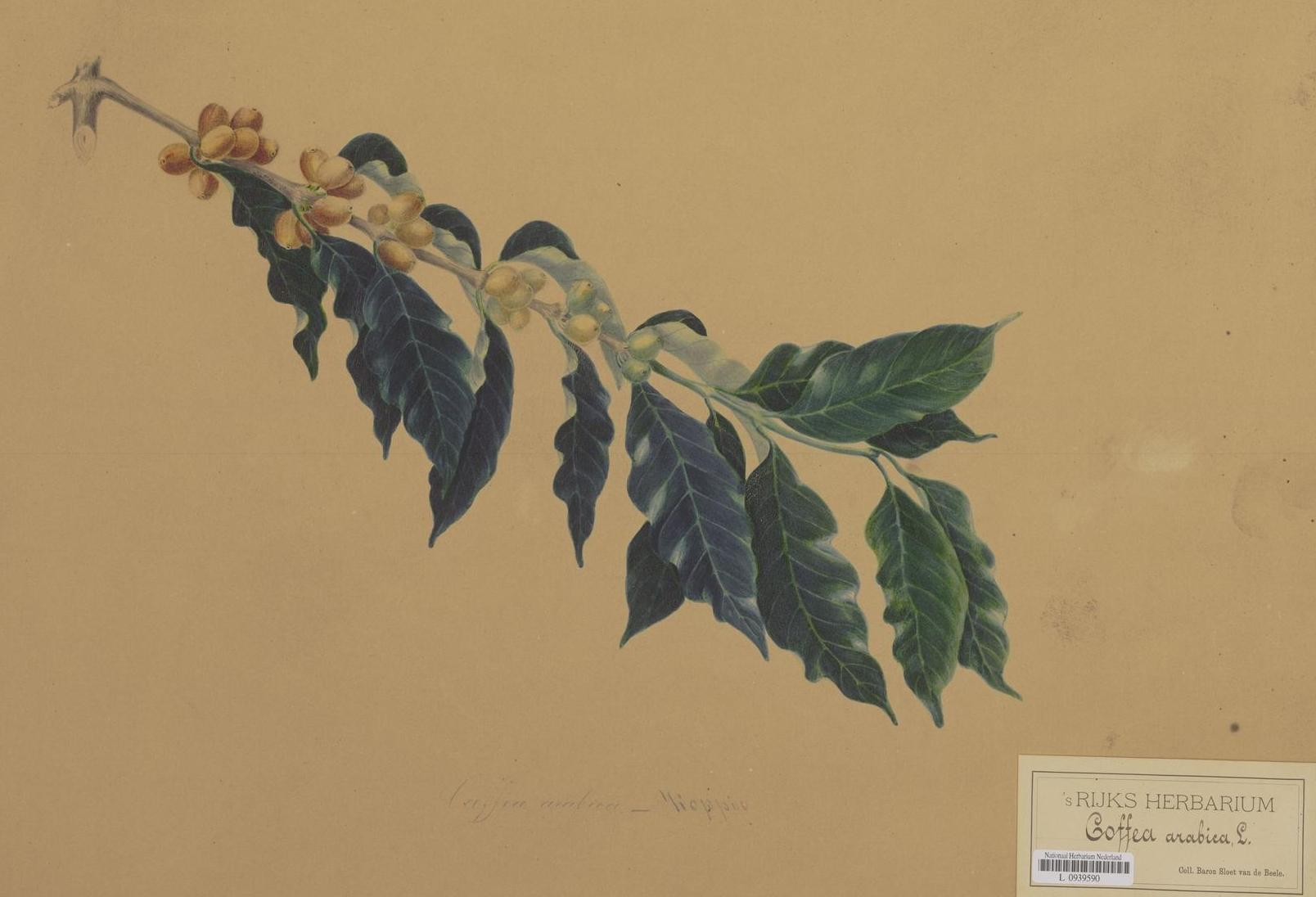 Coffea arabica Linnaeus